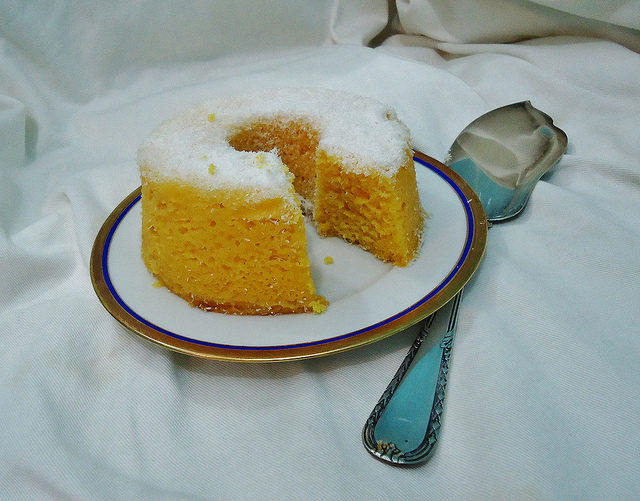 Brazilian cornmeal cake covered by grated coconut.